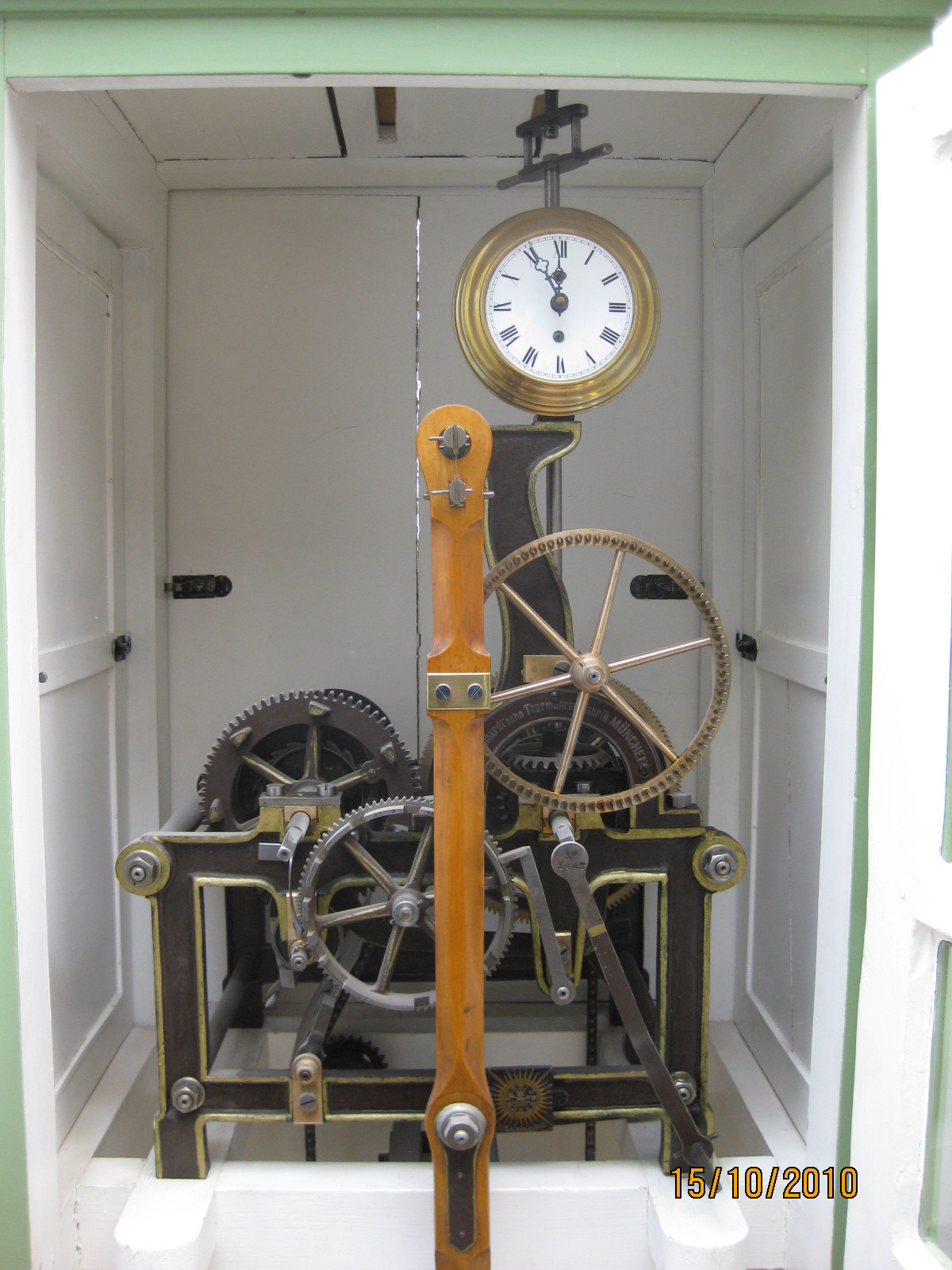 Clock from Manhardt, Munich at Junior School of Mülln, City of Salzburg